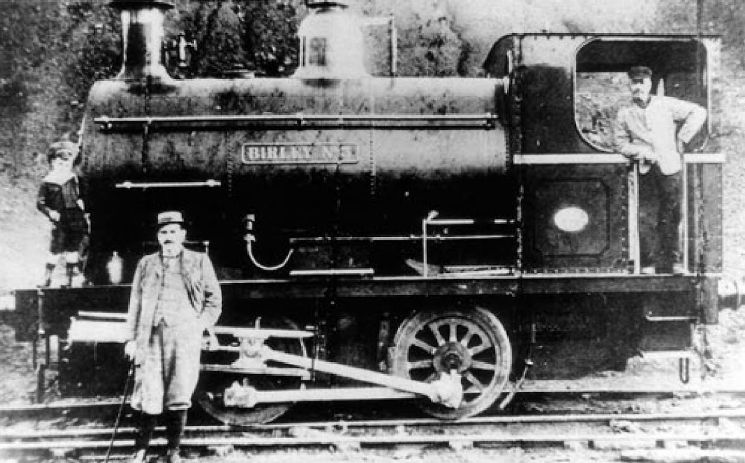 Mr Gainsford, Director of the Sheffield Coal Company, taking delivery of a new shunting engine, No. 972 in 1903. The engine went onto work at Birley West Colliery until it ceased production in 1908; then the engine found work at the coking facility until 1925. No 972 was transferred to the company's Beighton Colliery for a short time, until it was passed over to Brookhouse Colliery for the remainder of its working life. It was scrapped in 1940